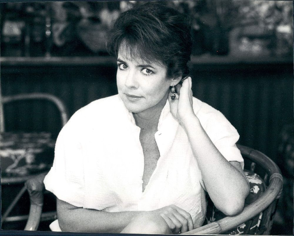 Stockard Channing in 1984